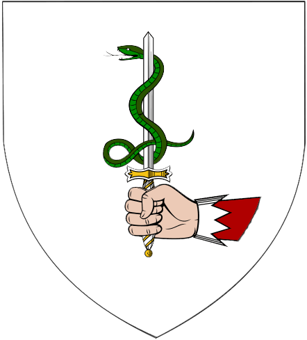 Coat of arms of the O'Donovan.